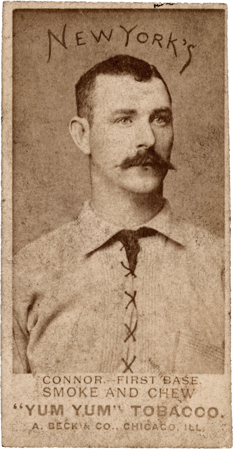 1888 N403 Yum Yum Tobacco Roger Connor, Redemption Back SGC 60 EX 5